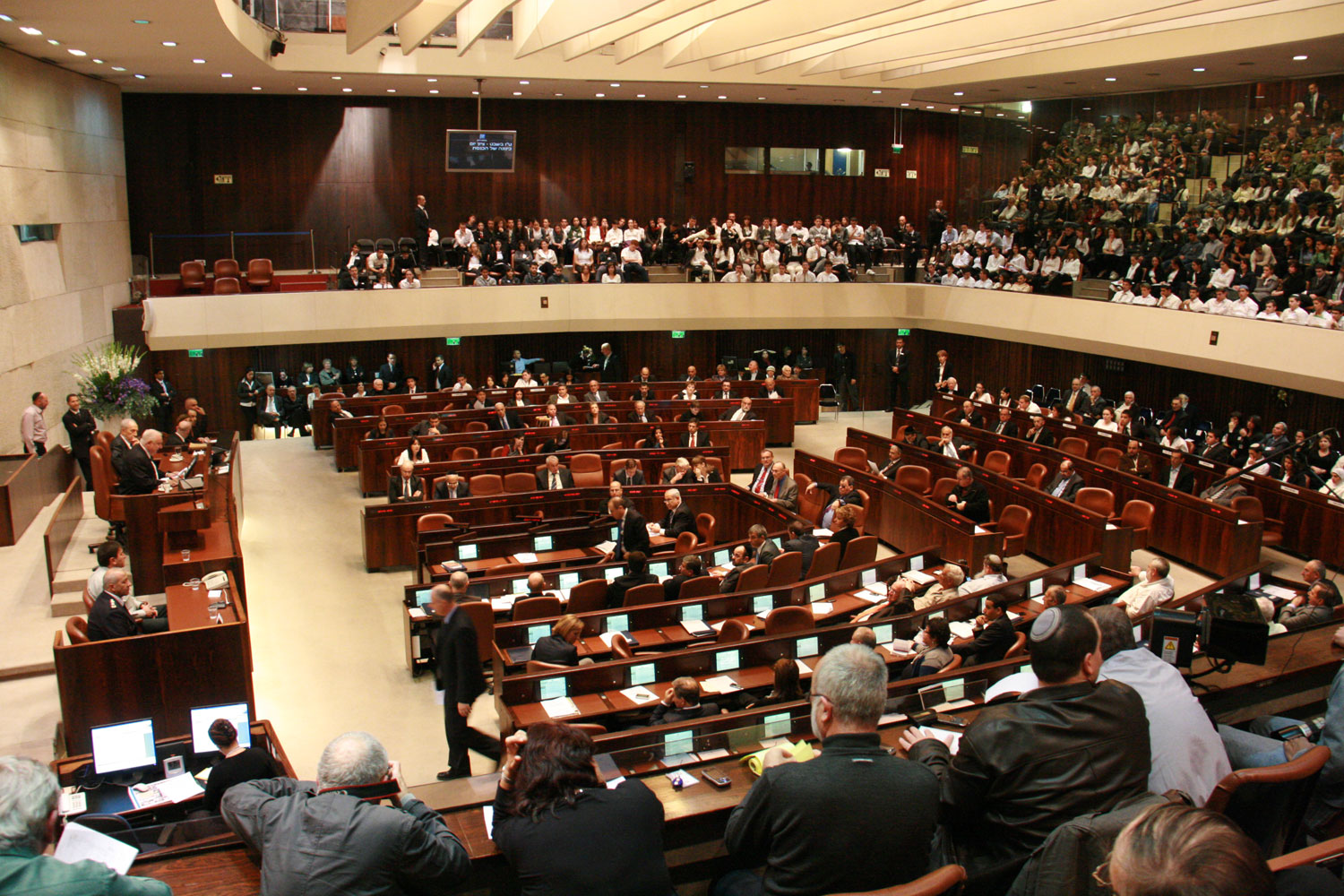 Knesset Israel 61 years.